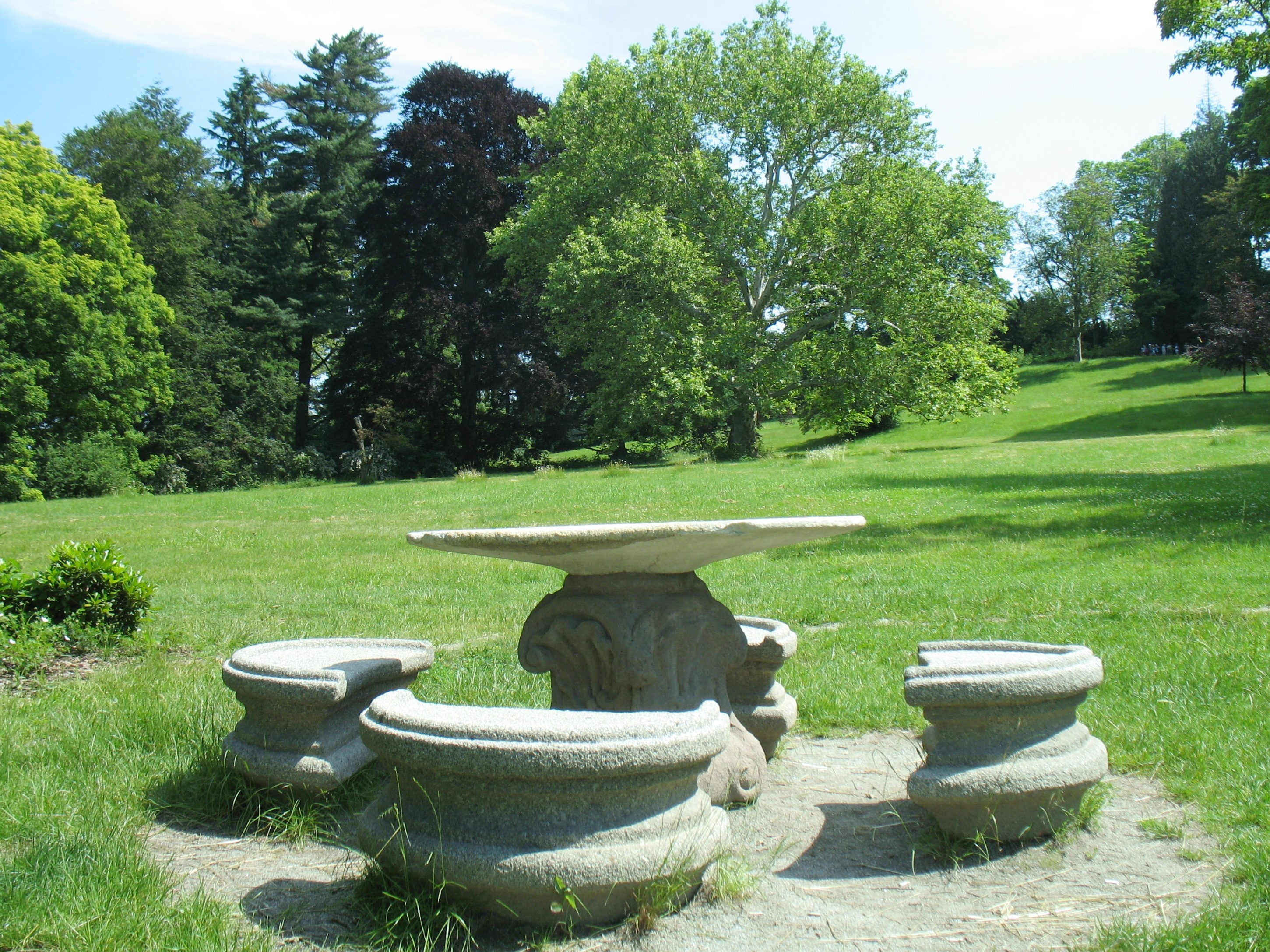 Castle park in Vrchotovy Janovice, Benešov District, Czech Republic